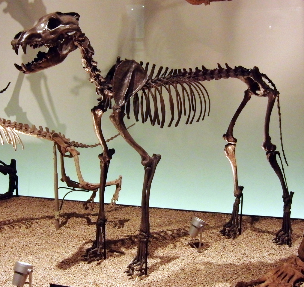 Skeleton of Dire wolf (Canis dirus). Exhibit in the National Museum of Nature and Science, Tokyo, Japan.